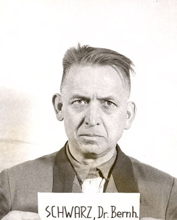 Bernhard Schwarz as a witness during the Nuremberg Trials.